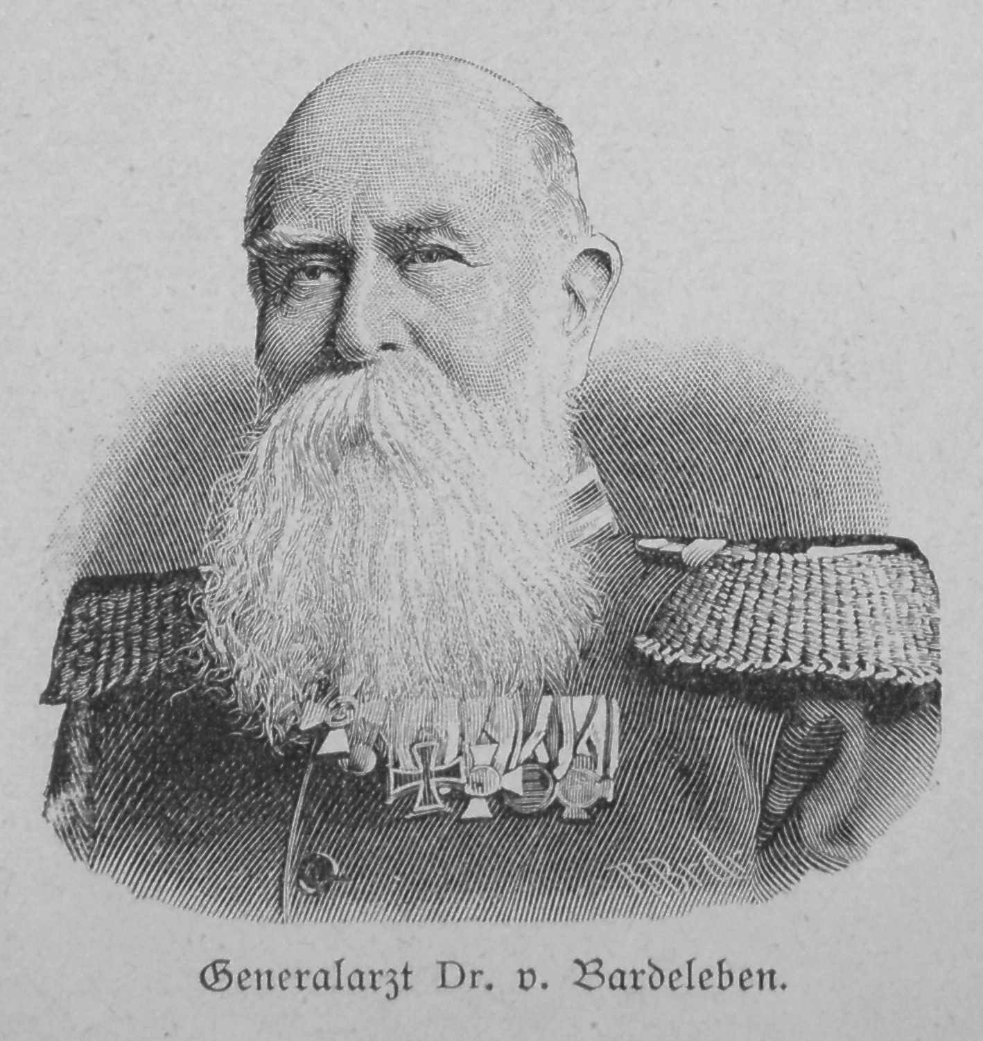 brigadier general of Medical Corps MD von Bardeleben